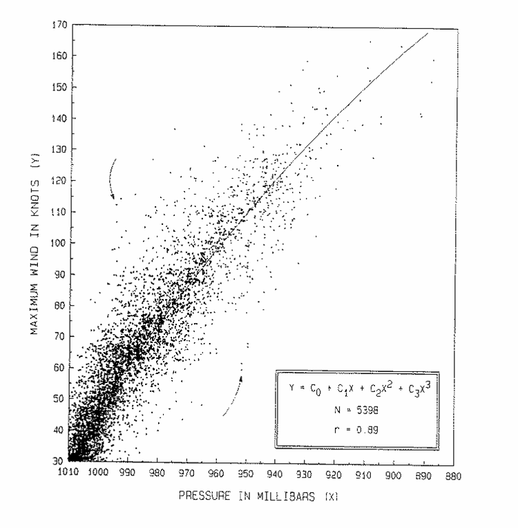 Chris Landsea, formerly of AOML, part of the National Hurricane Center, NOAA